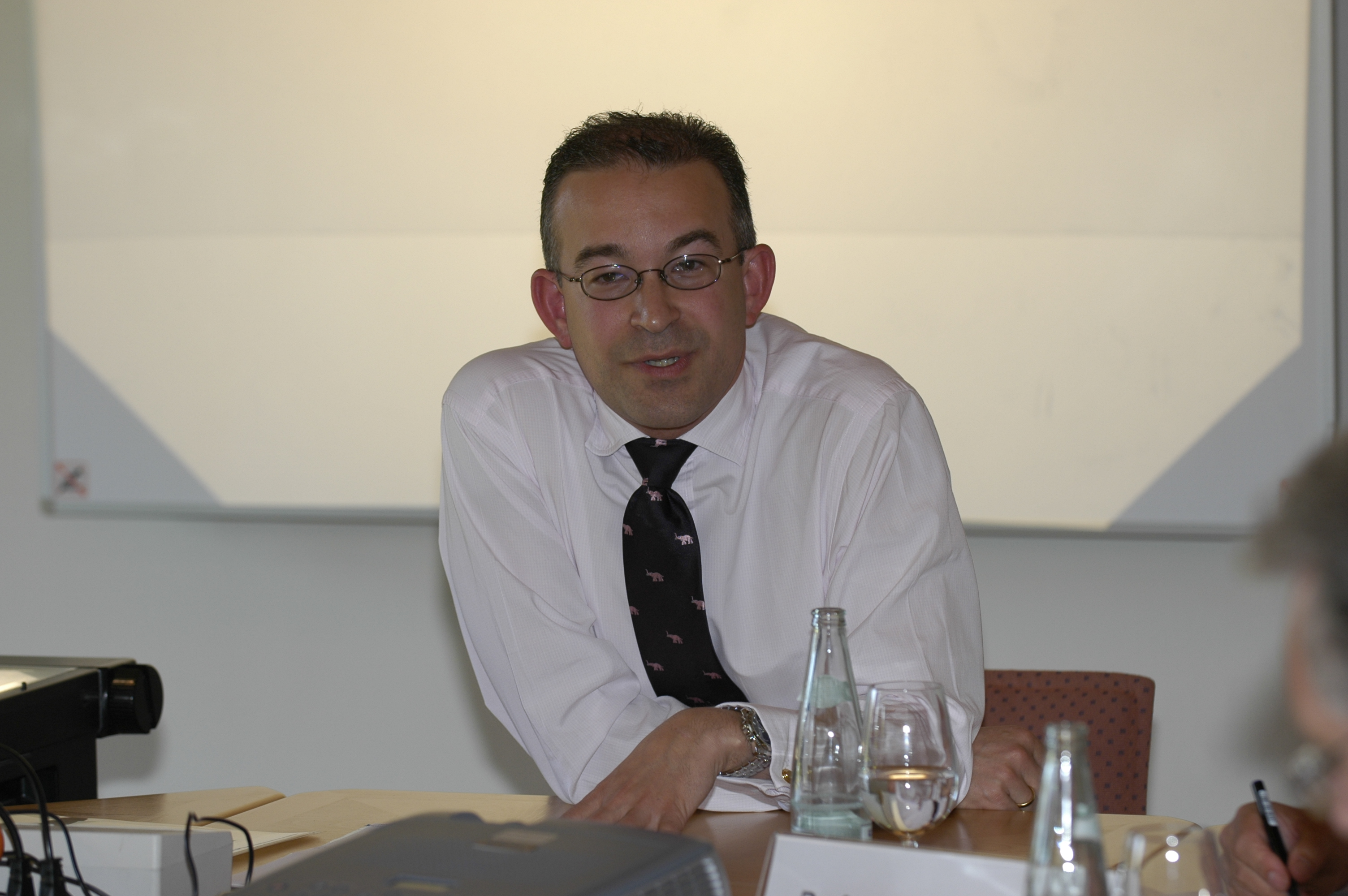 Gregor A. Rutz